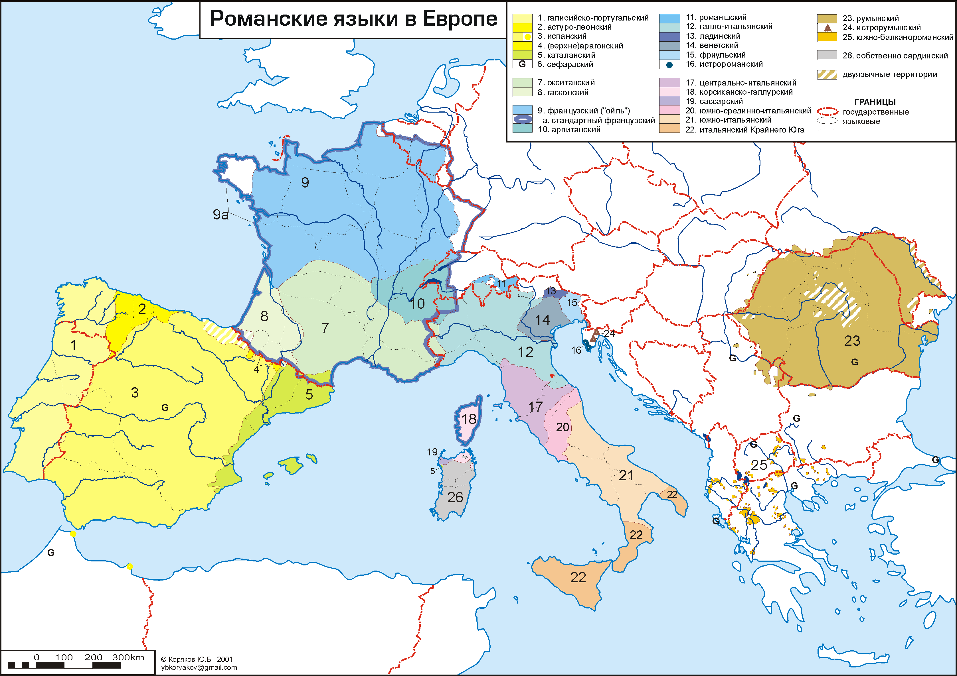 Romance languages in Europe